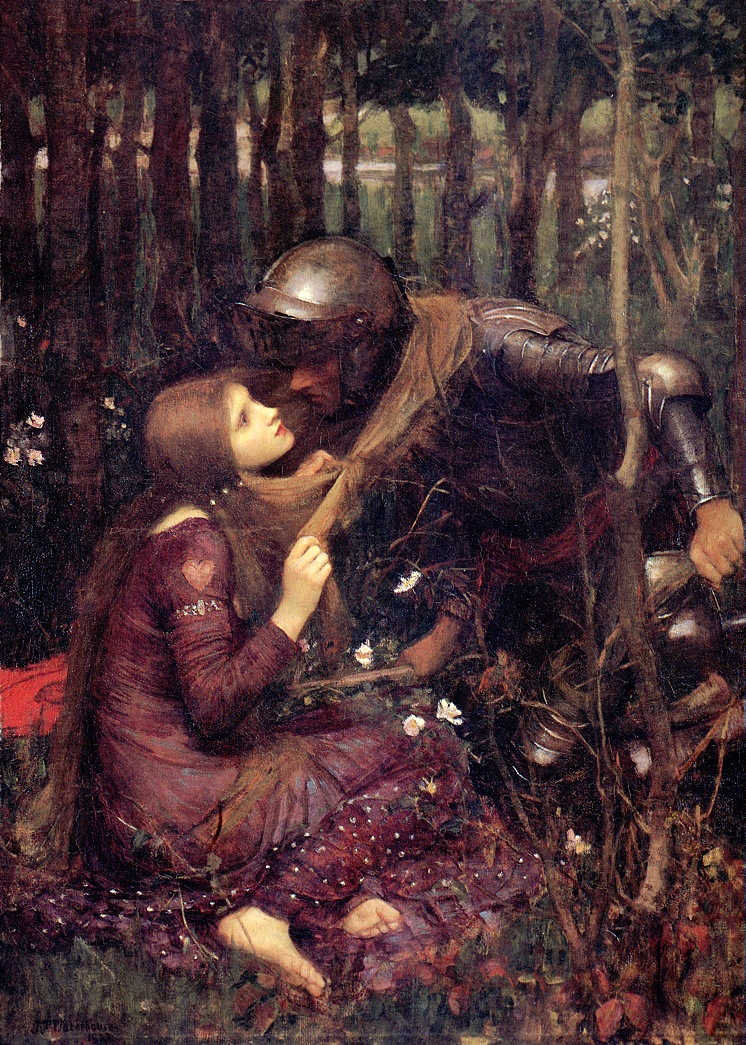 La belle dame sans merci